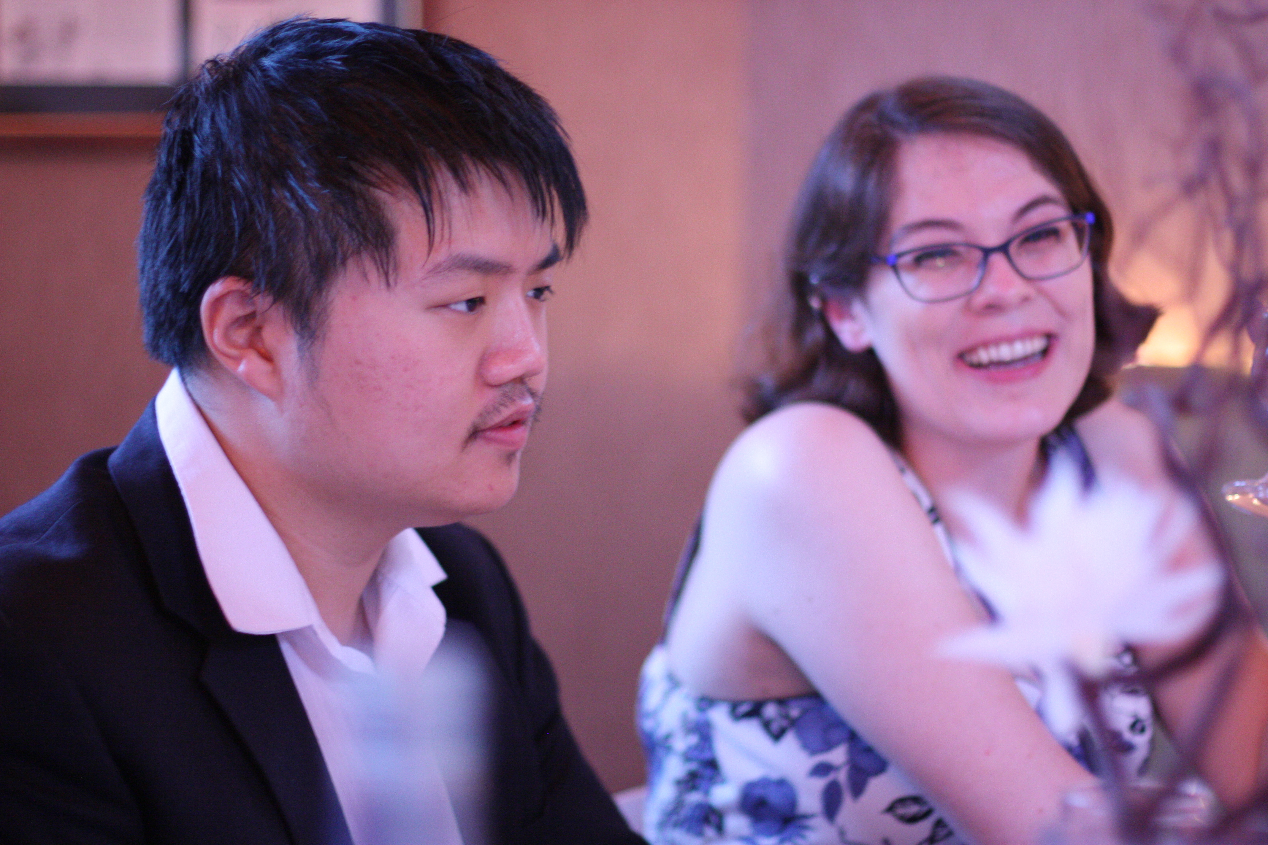 Swarthmore College graduates Arthur Chu and Eliza Blair.